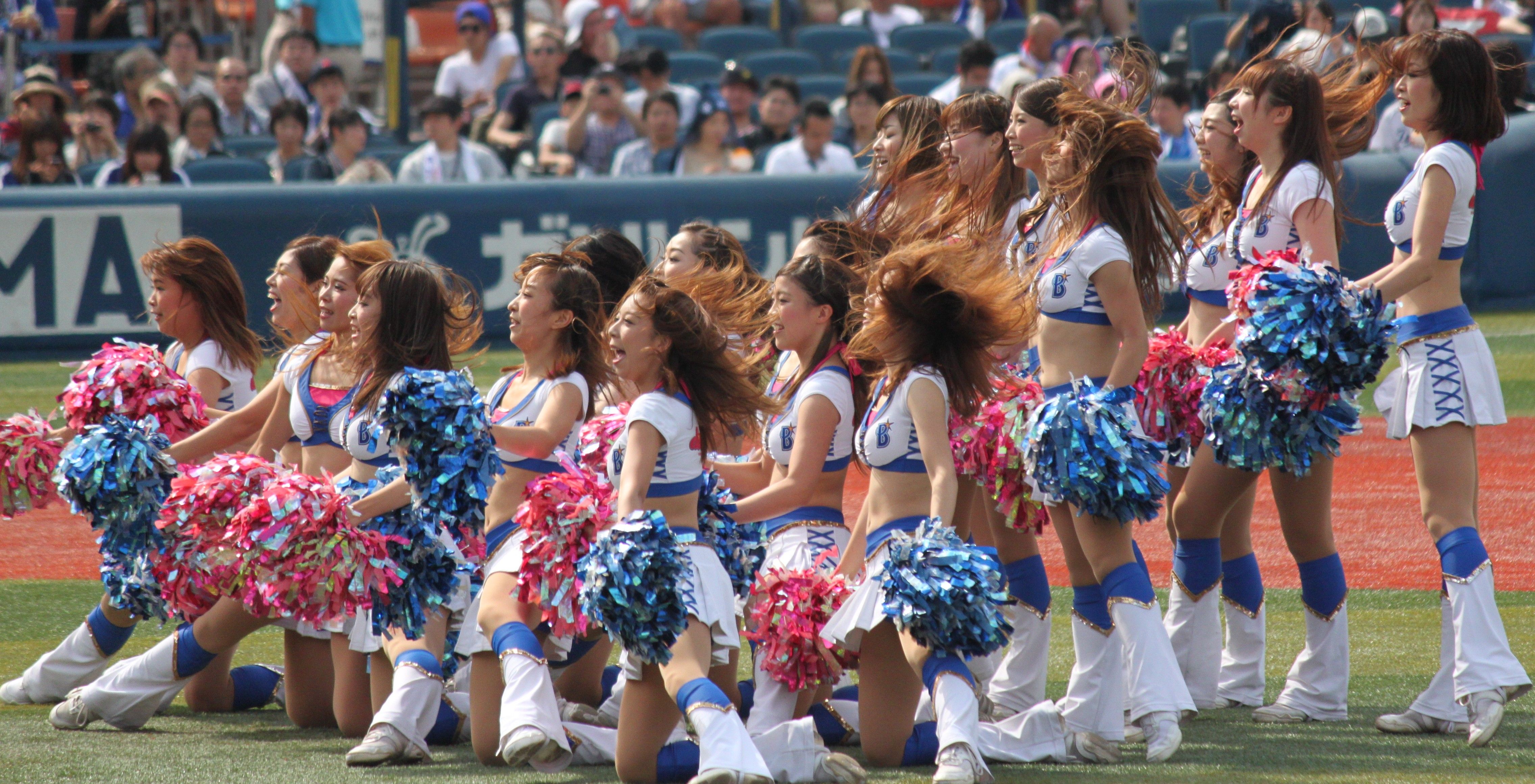 "diana", cheer team of the Yokohama DeNA BayStars, at Yokohama Stadium.